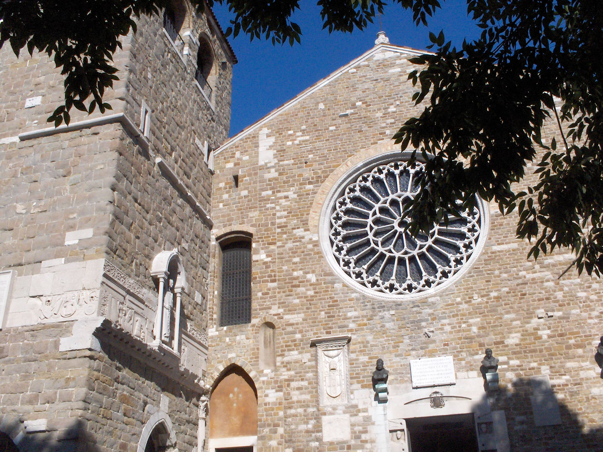 San Giusto cathedral, Trieste